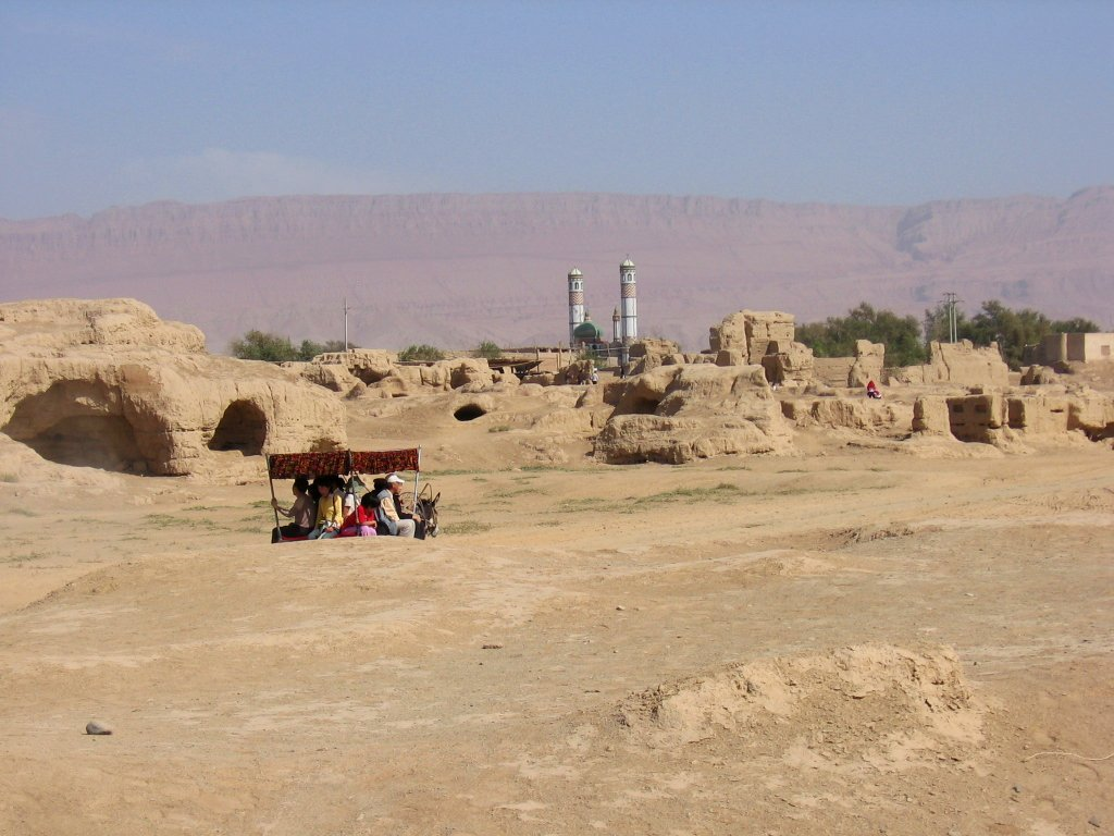 The ruins of Ancient city of Gaochang: Gaochang was built in I century BC. Was an important site along the Silk Road. We still can see old palace ruins and inside and outside cities. It's located 30 Km from Turpan.